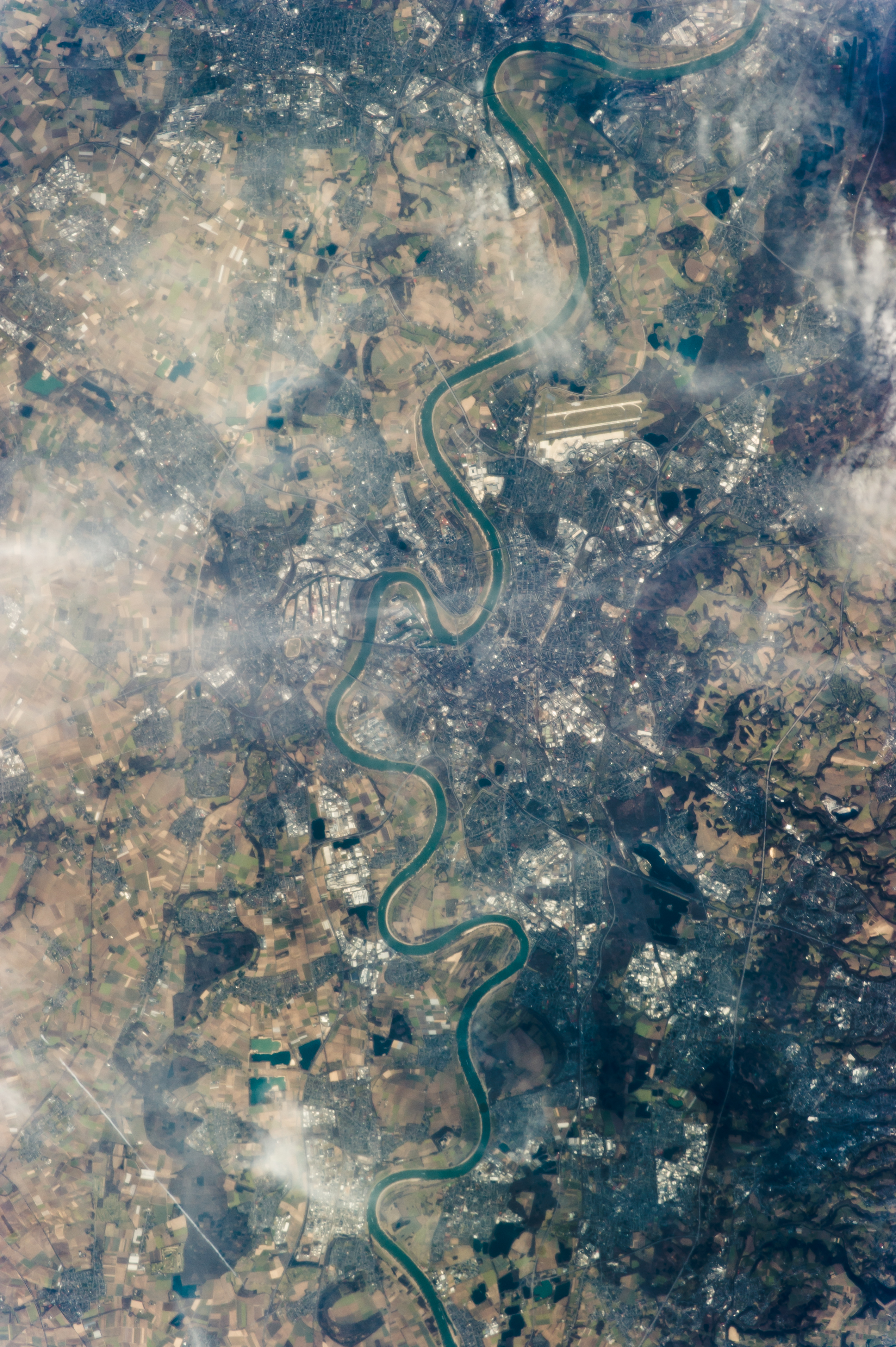 "Düsseldorf, Germany, where the Düssel flows into the winding Rhine." Caption by astronaut Chris Hadfield on board the International Space Station. ISS Crew Earth Observations: ISS034-E-062870IdentificationMissionISS034 (Expedition 34)RollEFrame062870Country or Geographic NameGERMANYCameraCamera Focal Length400 mmCameraNIKON D3SQualityPercentage of Cloud Cover11-25%Nadir What is Nadir?Date2013-03-06Time11:08:37Nadir Point Latitude51.3° NNadir Point Longitude6.1° ESun Azimuth169°Spacecraft Altitude218 nautical miles (404 km)Sun Elevation Angle33°